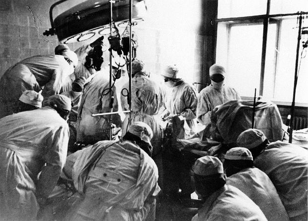 Heart transplantation by prof. Jan Witold Moll